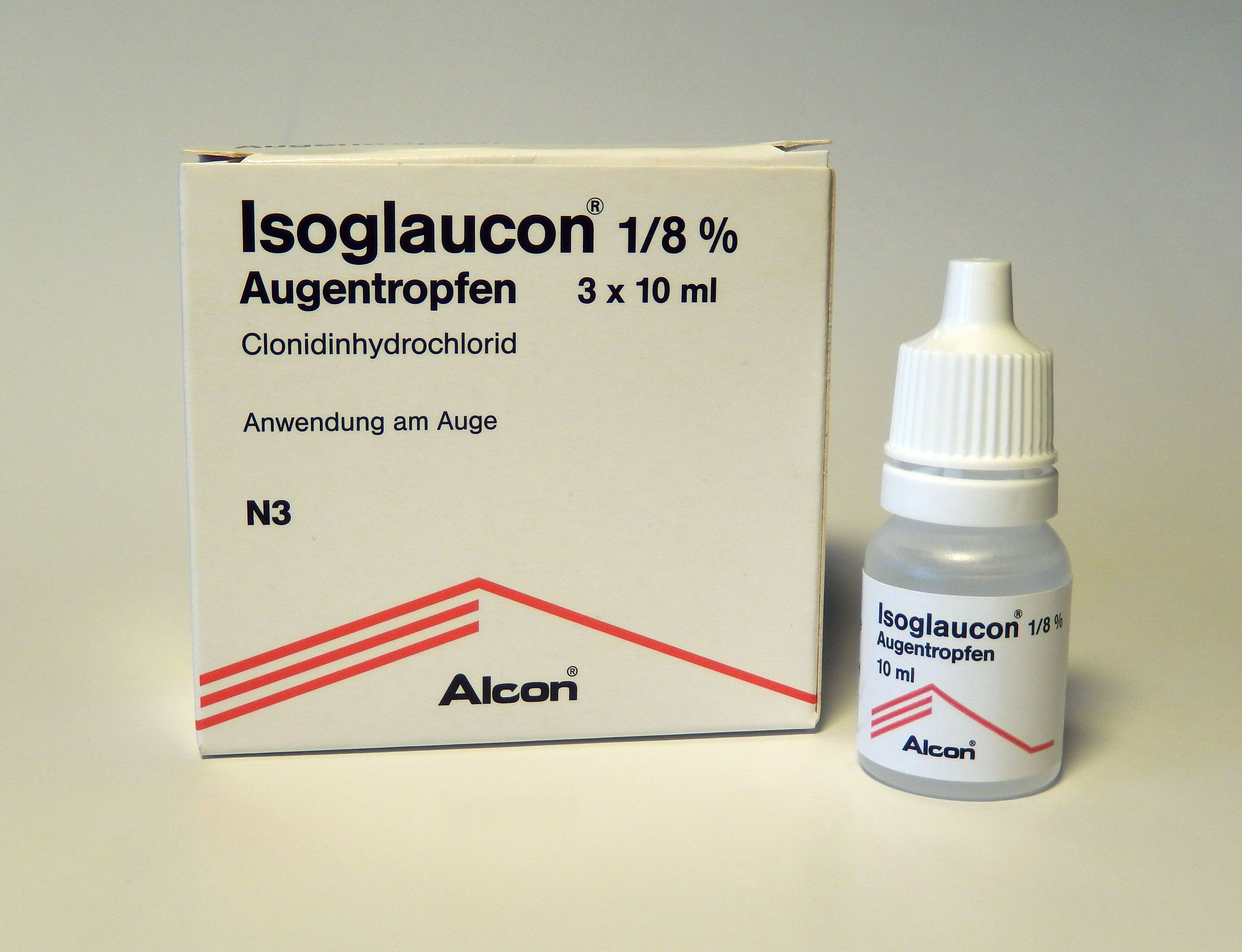 Clonidine eye drops